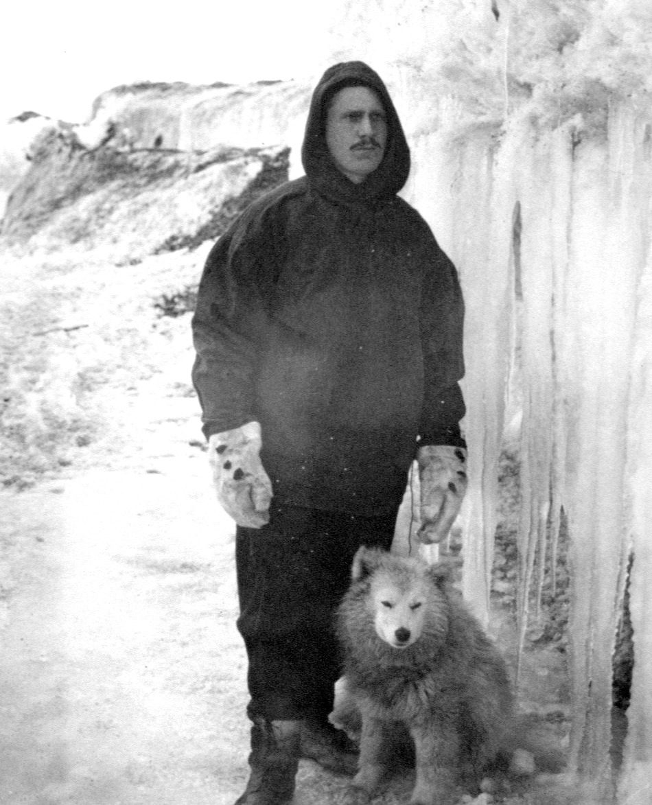 Louis C. Bernacchi (1876-1942), antarctic explorer, member of the Southern Cross Expedition (1898-1900)